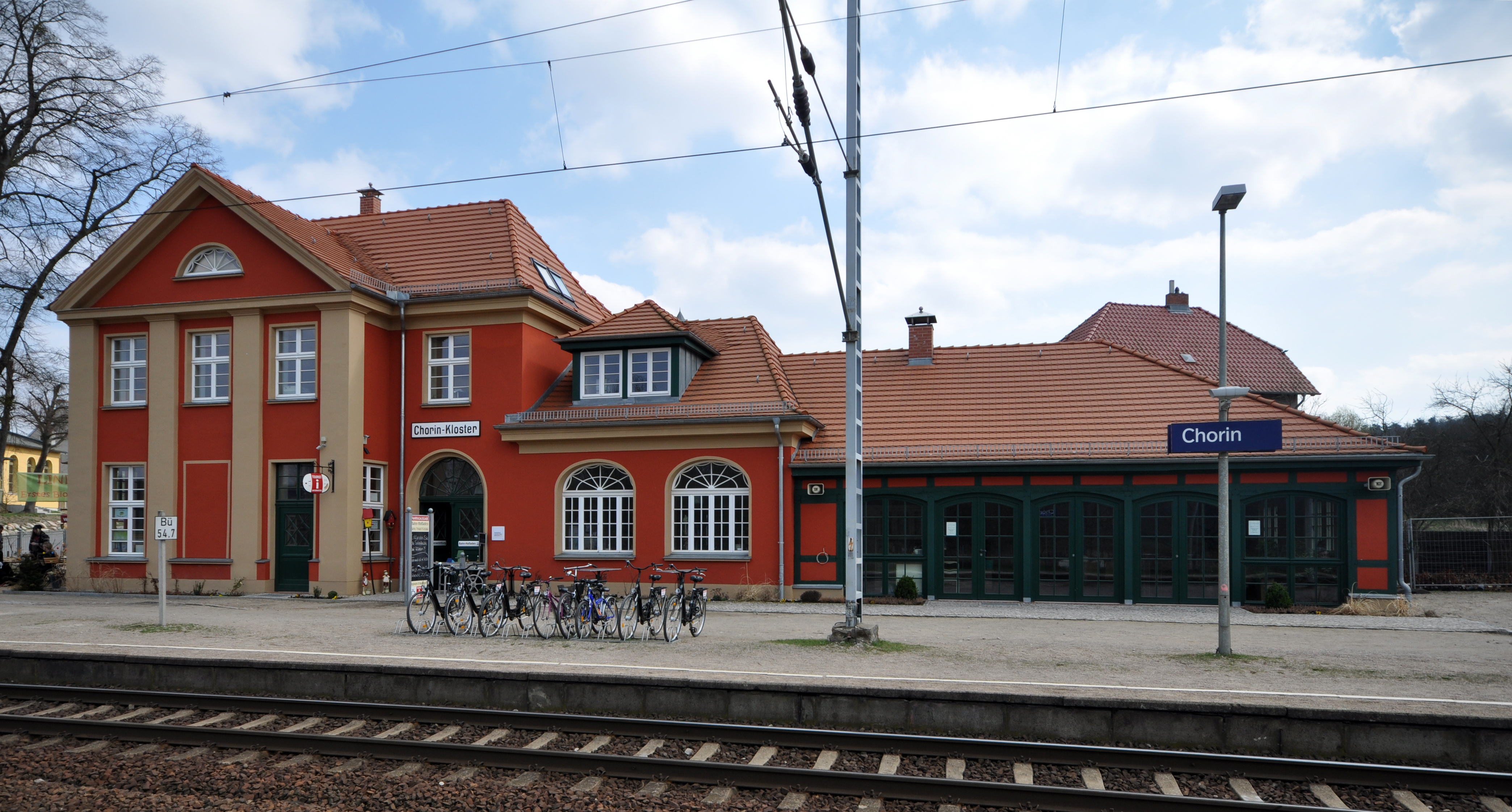 Rail station, Chorin-Kloster